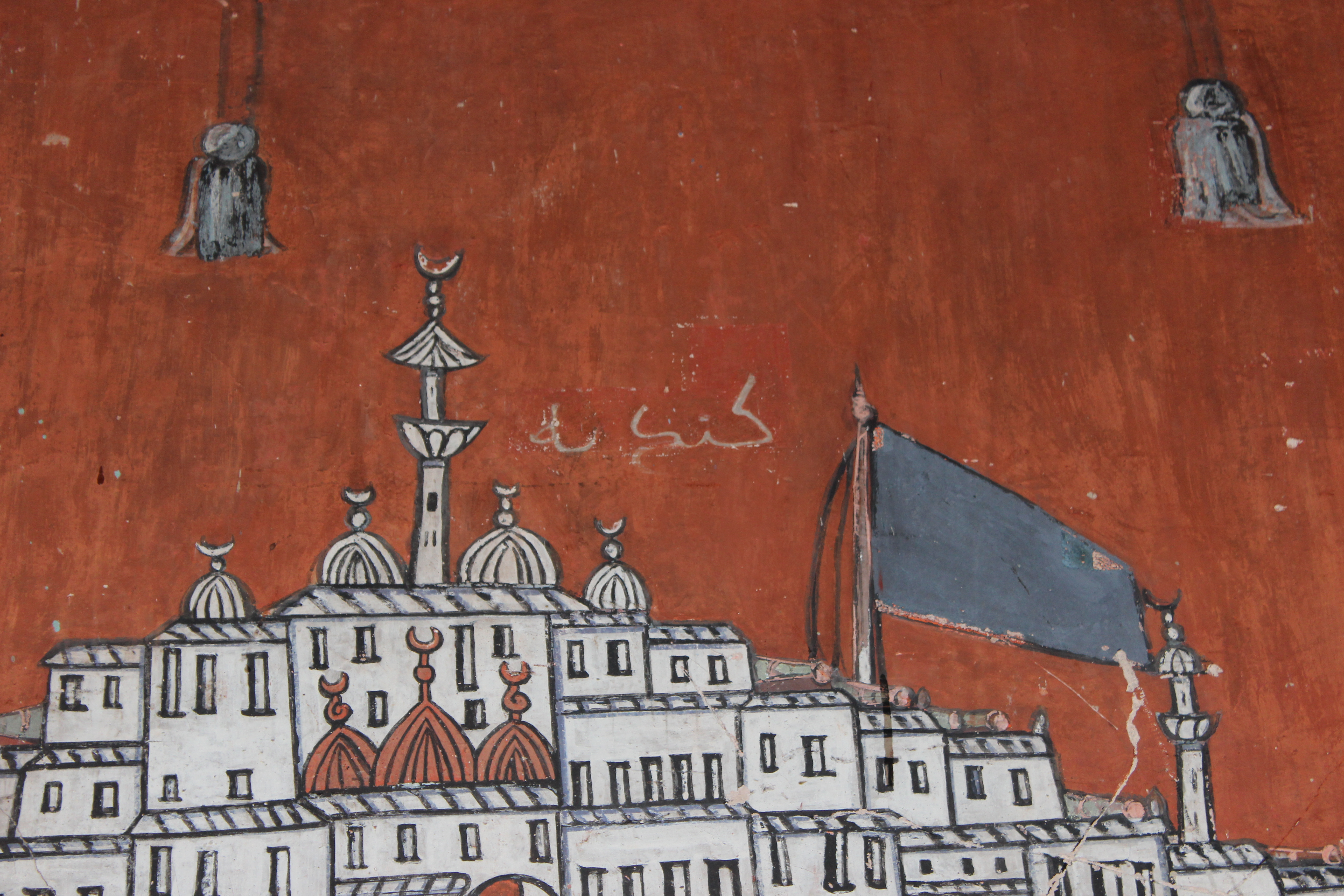 nothing